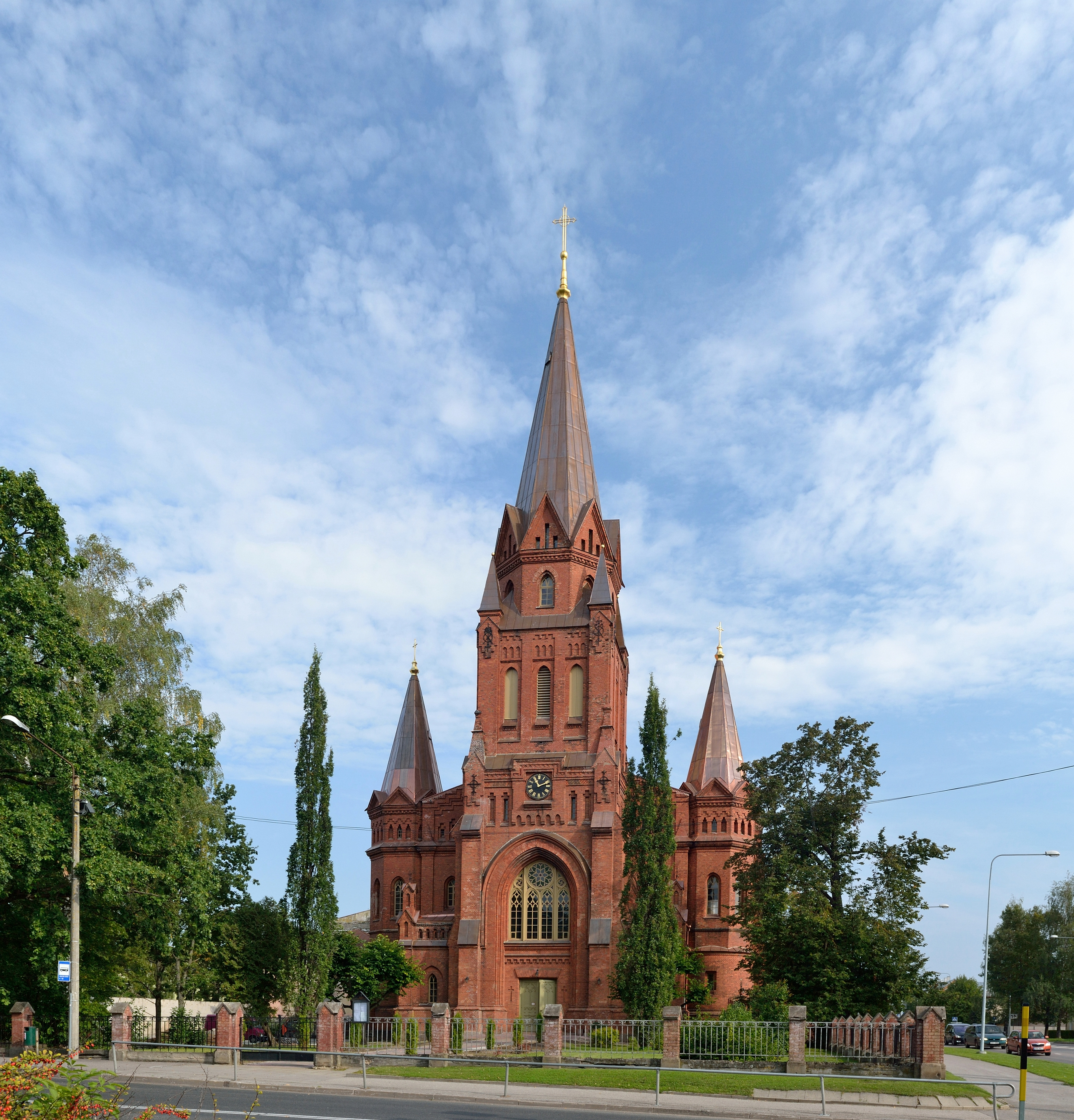 Saint Peter's Church in Tartu, built in 1882–1884